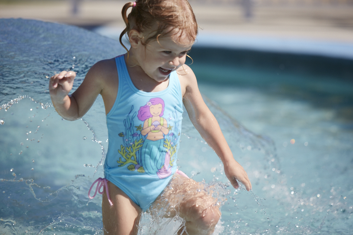 A girl playing in the water at the Hibiscus Sports Complex, Brisbane